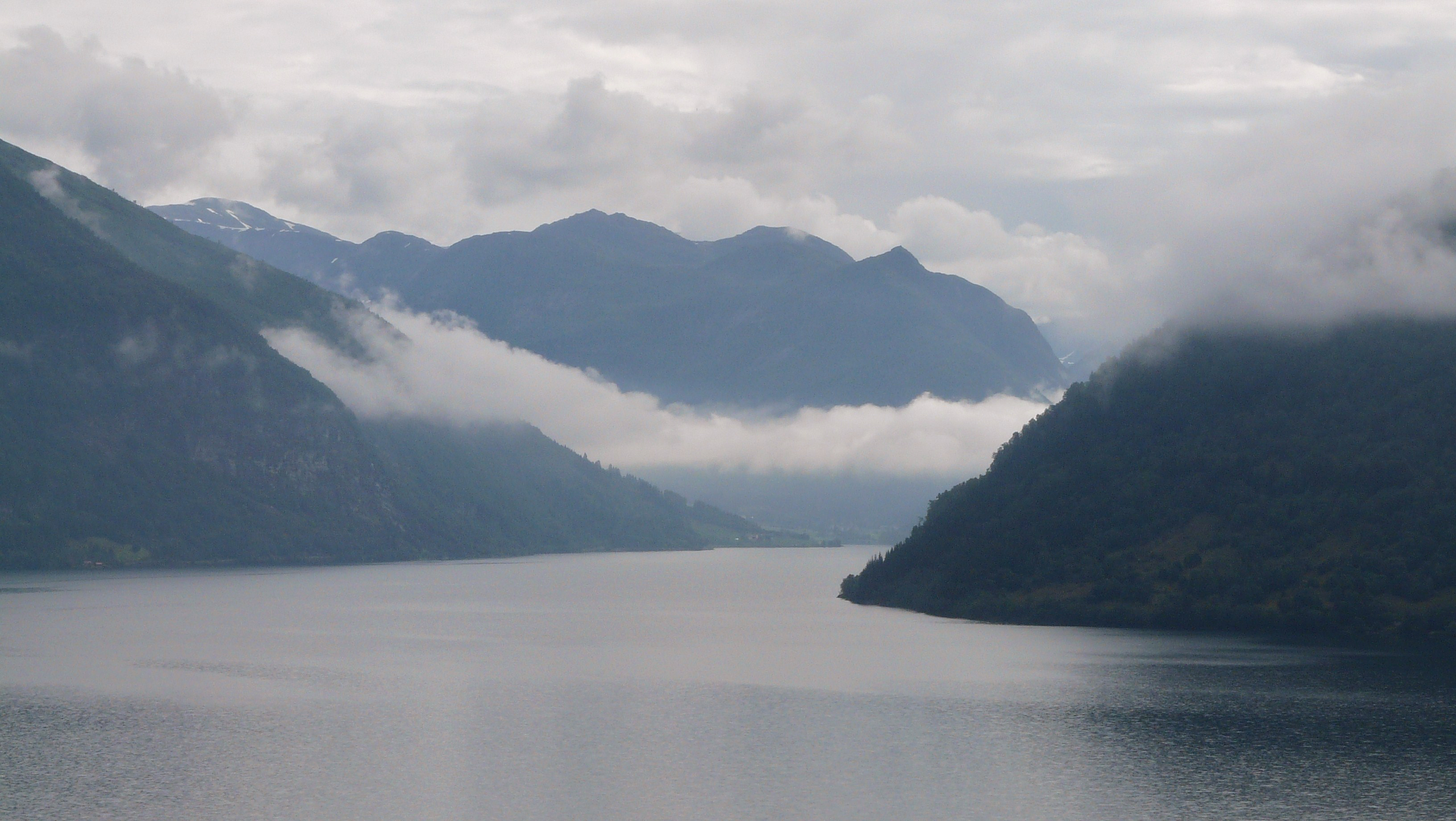 Haukedalsvatnet as seen from the west from the Riksvei 13 -road on the ascent of Rørvikfjellet in 2008 August.